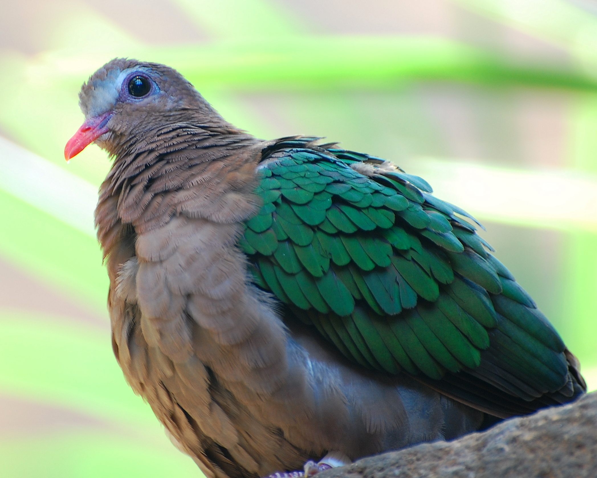 A male Emerald Dove at the National Aquarium, Baltimore, Maryland, USA.